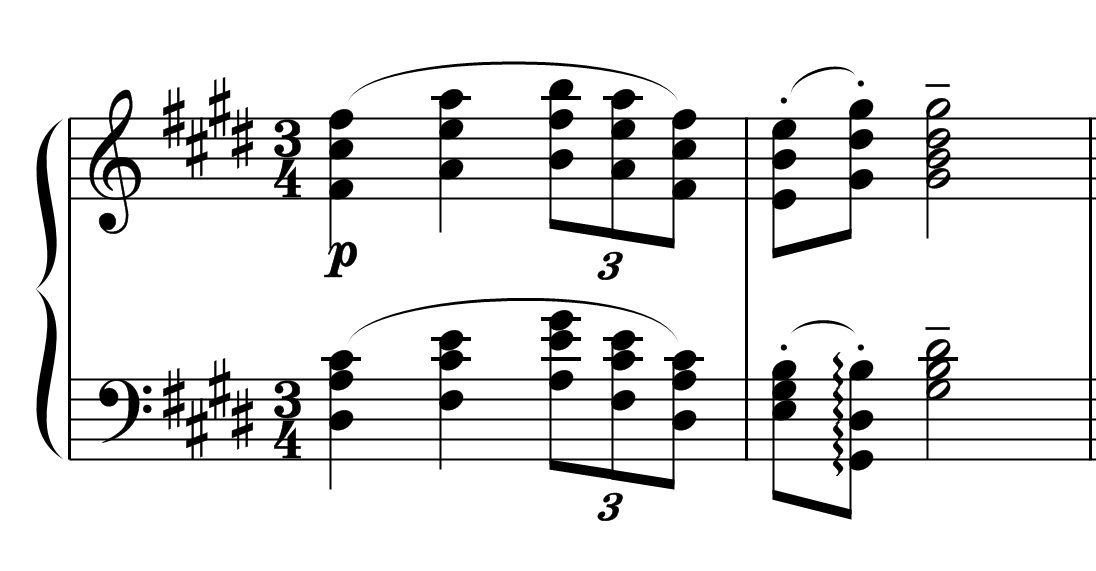 Debussy, Pour le piano 2."Sarabande," m. 1-2.